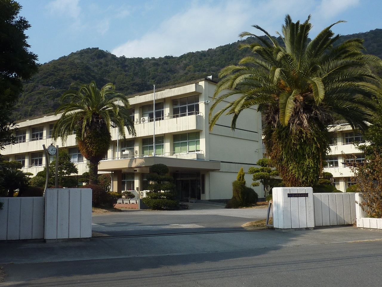 Kamae-Shonan Junior High School (Kamae, Saiki City, Oita Prefecture, Japan)